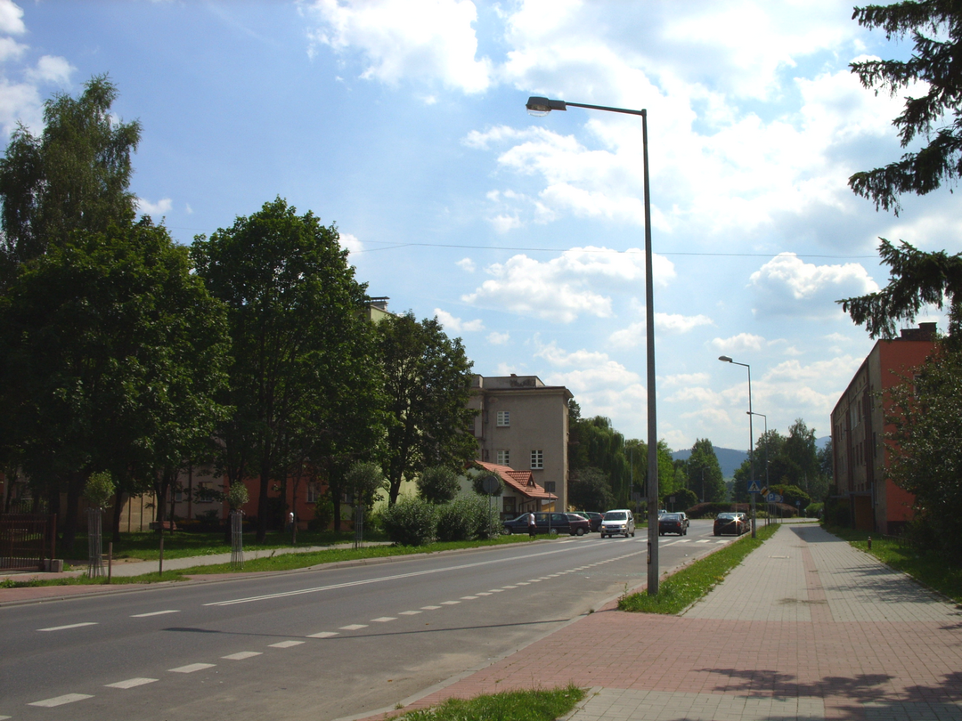 Piłsudski street in Żywiec (Poland)